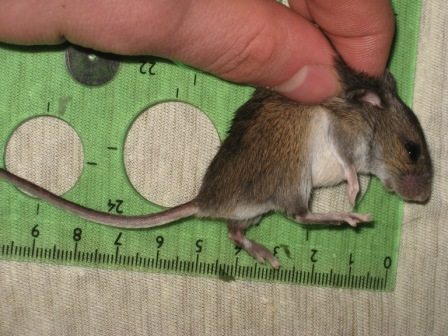 Apodemus uralensis (microps), adult male, measuring